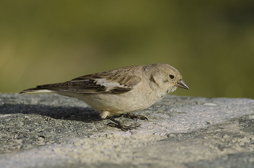 Tibetan Snowfinch, Ladakh, India